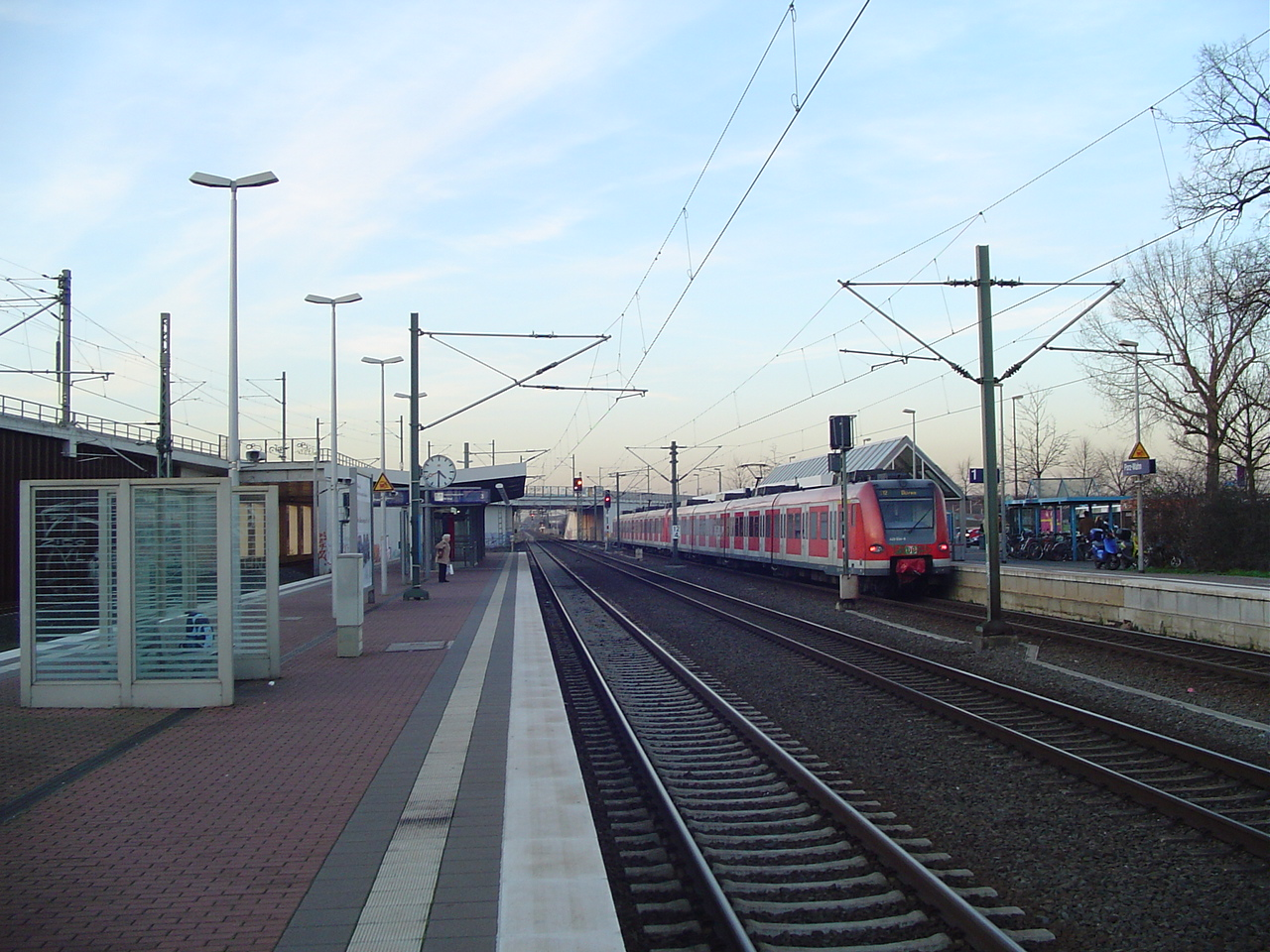 Porz-Wahn train station (S-Bahn) in Cologne, Germany